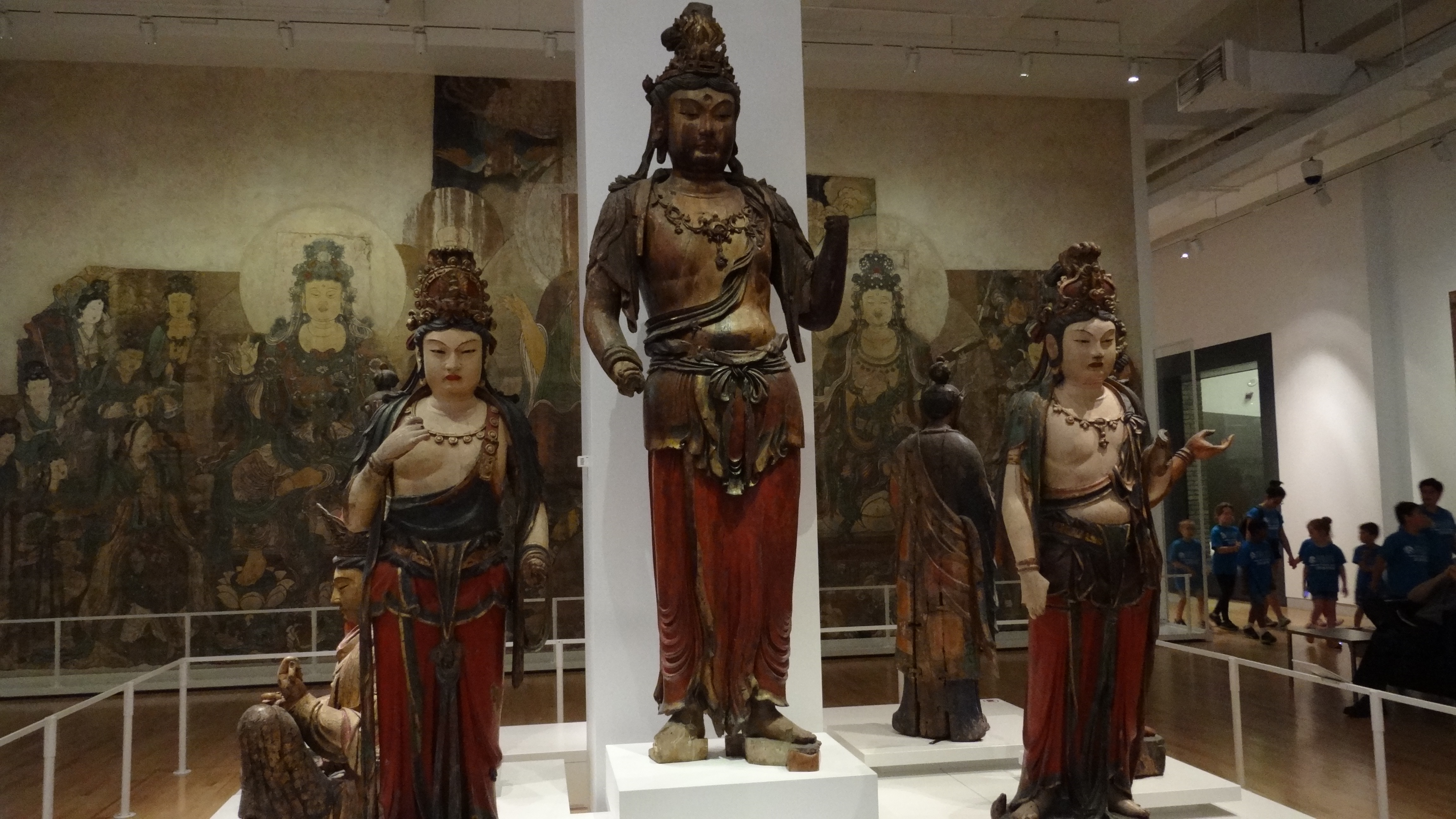 wooden statue